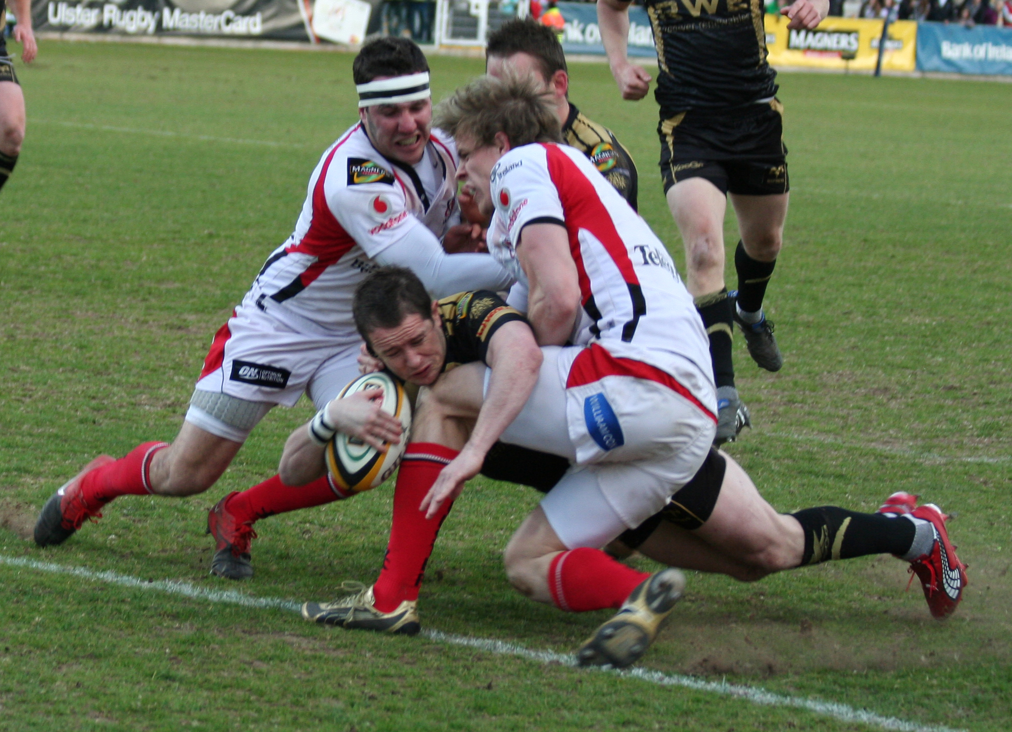 Shane Williams scores a try for Ospreys against Ulster at Ravenhill, Belfast in a Magner's League match